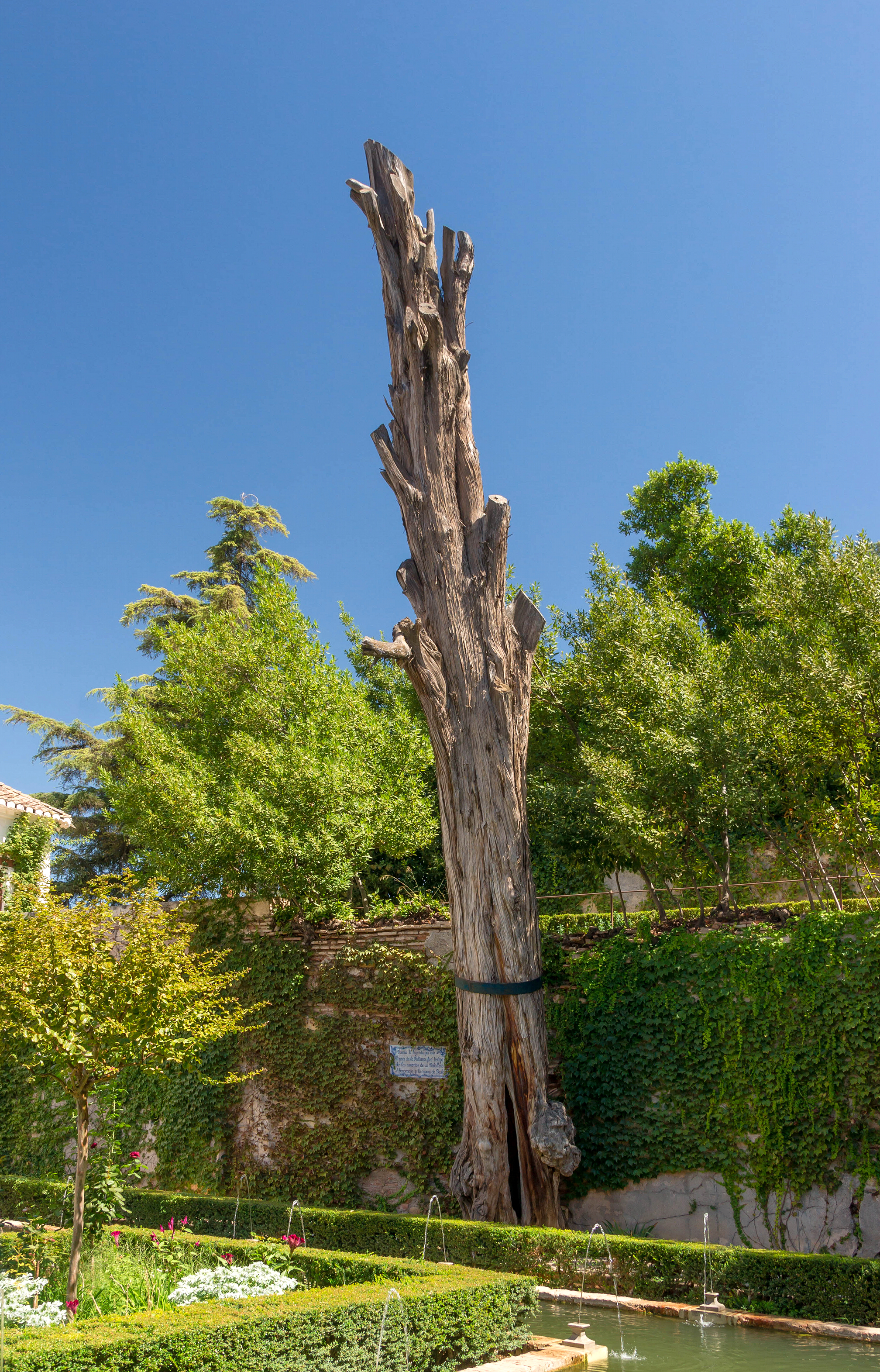 The trunk of the "Sultana's Cypres", (Cupressus sempervirens ?) in the "Garden of the Sultana", in Generalife. According to the romantic legend (and the plaque), this tree was the witness -in the 15th-century- of the love story between an Abencerrage knight and the Sultana, wife of Boabdil, the last moorish king. After discovering that, the king ordered the massacre of the whole Abencerrage tribe. Granada, Spain.